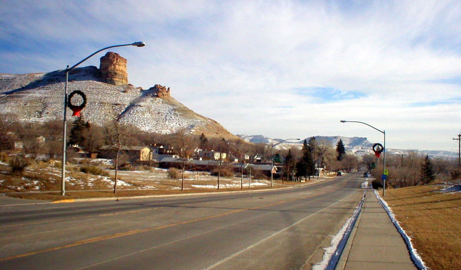 Green River, looking east on Flaming Gorge Avenue. Castle Rock is to the left.